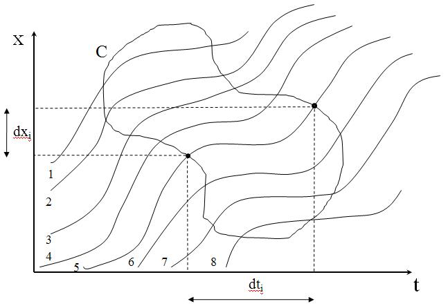 Traffic flow time-space diagram showing generalized region for analyzing q and k.